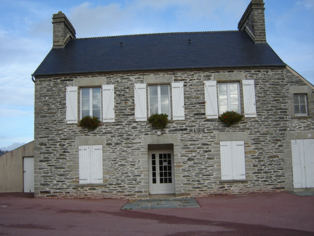 Nouainville's town hall, Manche, France